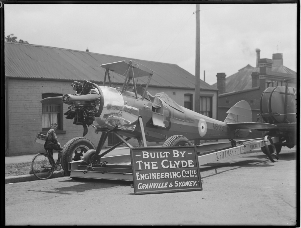 a collection of historical pictures in the Public Domain from the Powerhouse Museum.